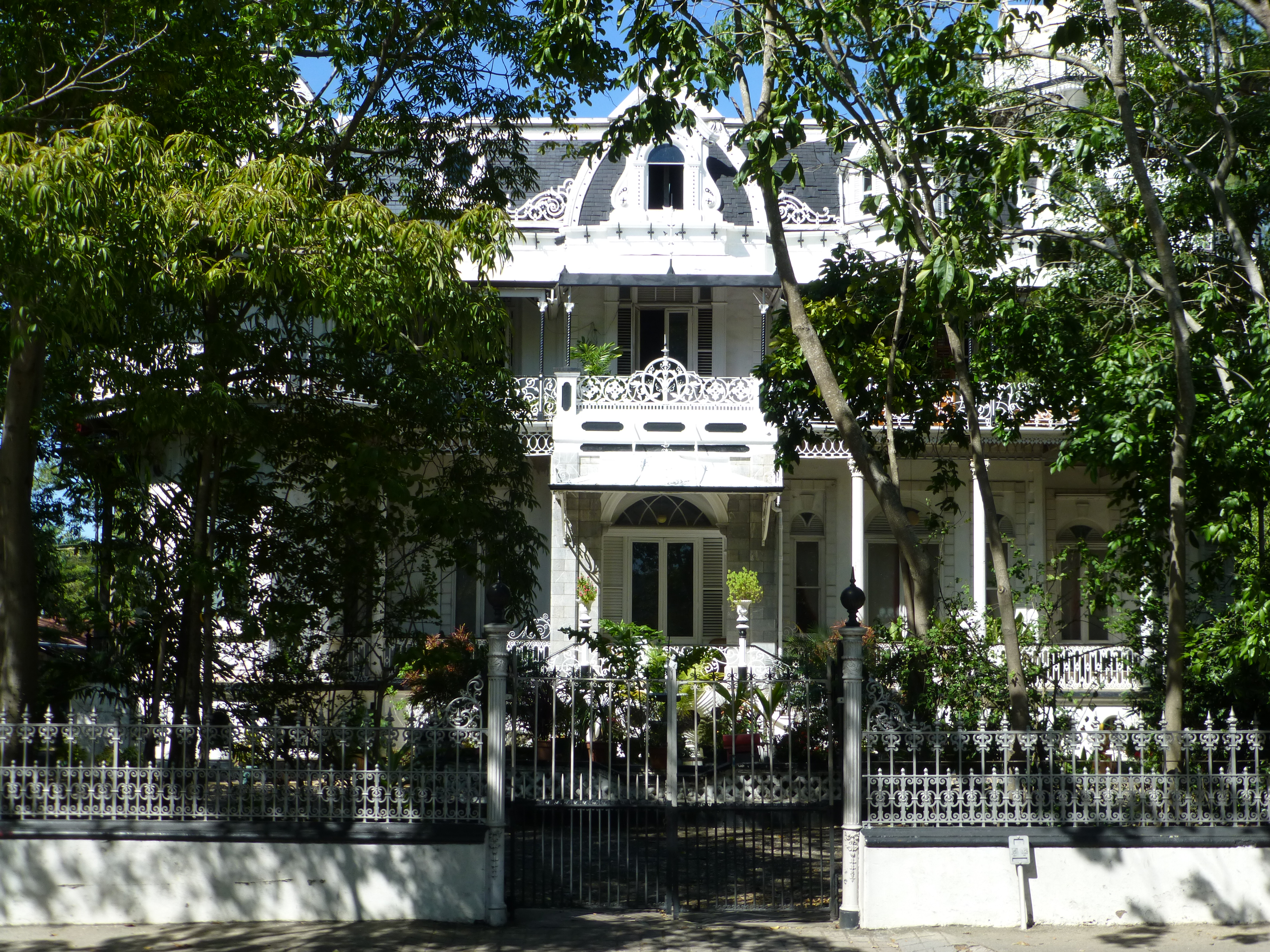 Roomar, Magnificent Seven, St. Clair, Port of Spain, Trinidad.